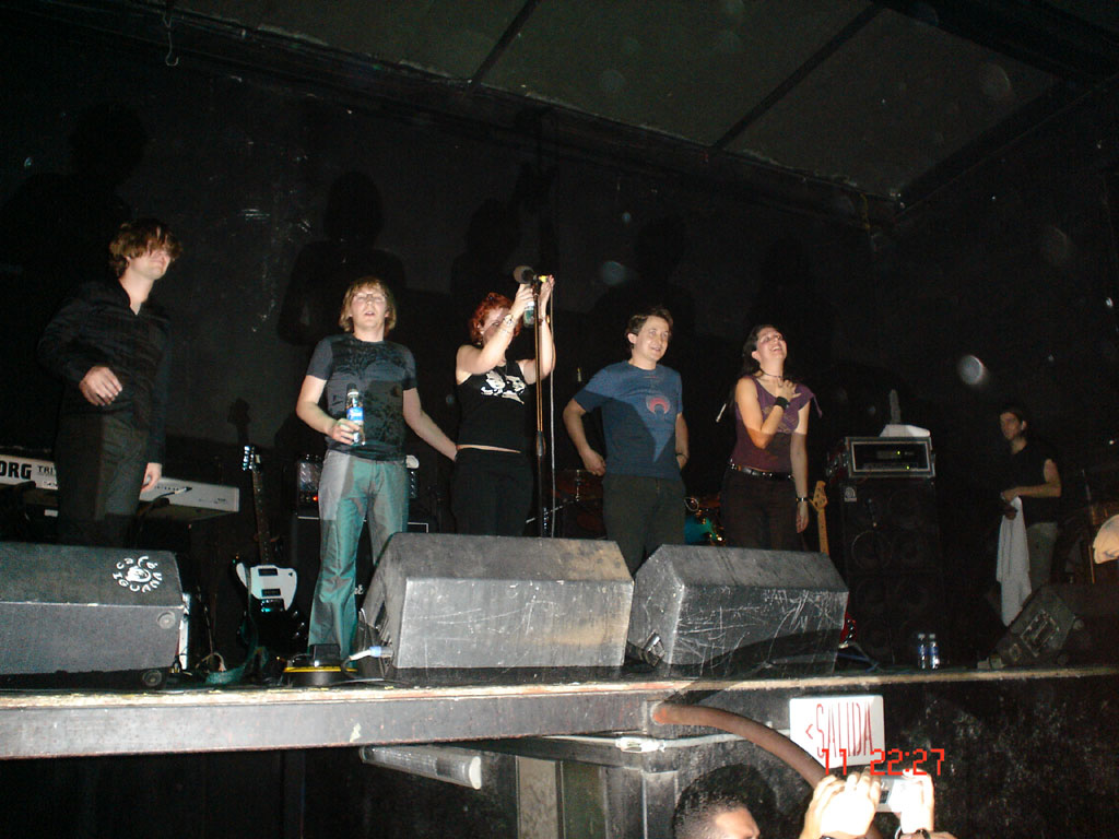 The Gathering at Monterrey.